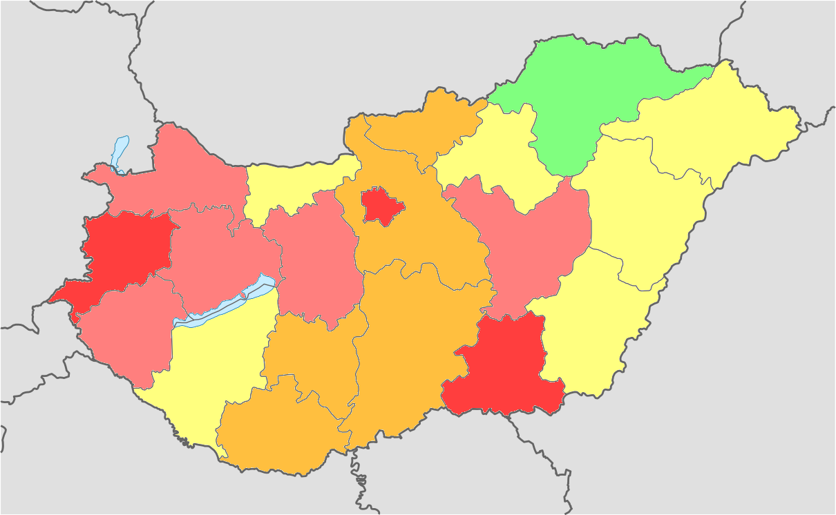 Data is from Eurostat